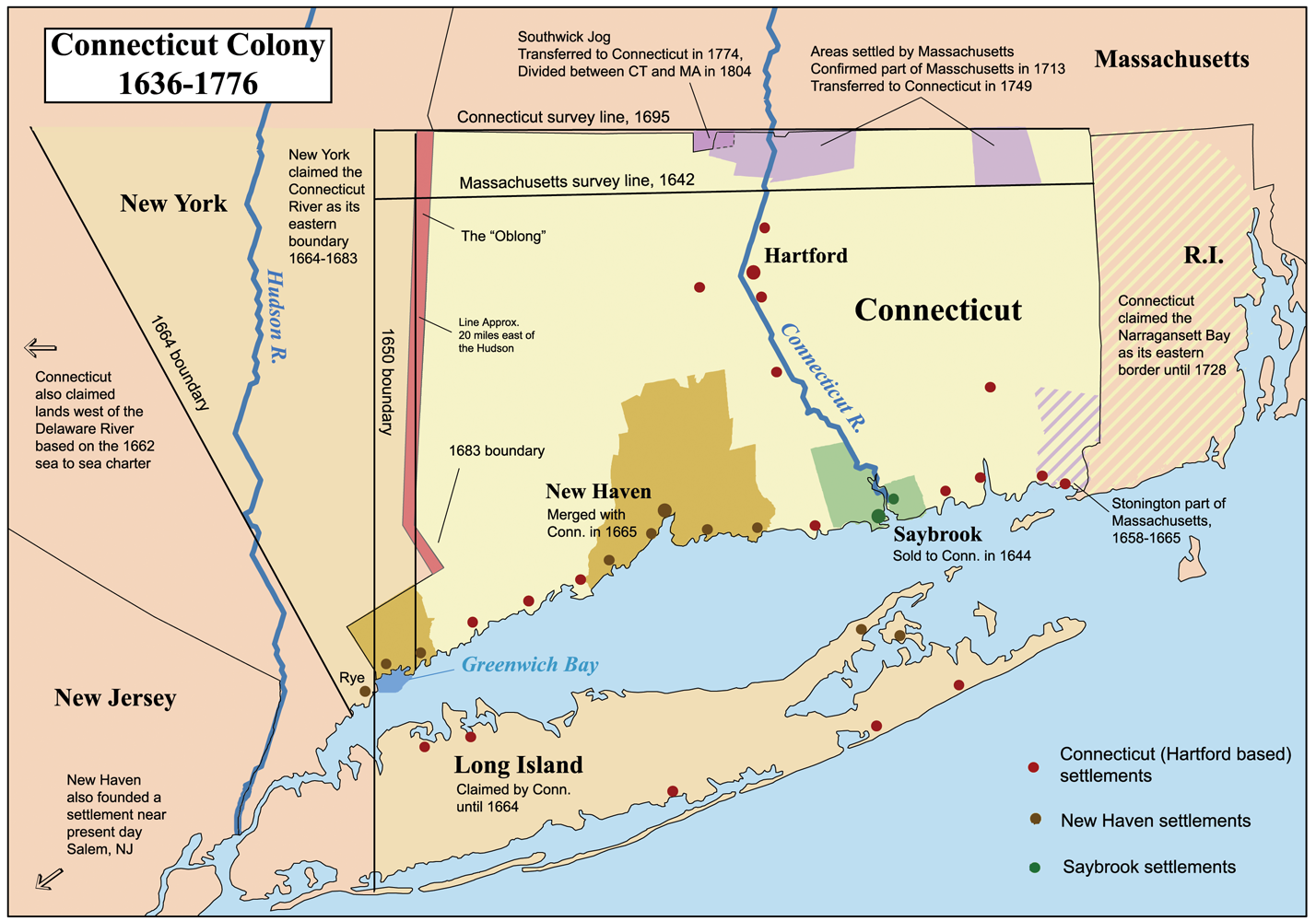 This is a map showing the Connecticut, New Haven, and Saybrook colonies from 1636-1776. It includes the territorial disputes between Connecticut and its neighbors during that time period. It does not show Connecticut's western land claims and dispute with Pennsylvania. Based primarily on descriptions from The Boundary Disputes of Connecticut by Clarence Winthrop Bowen. James R. Osgood and Company, Boston, 1882.